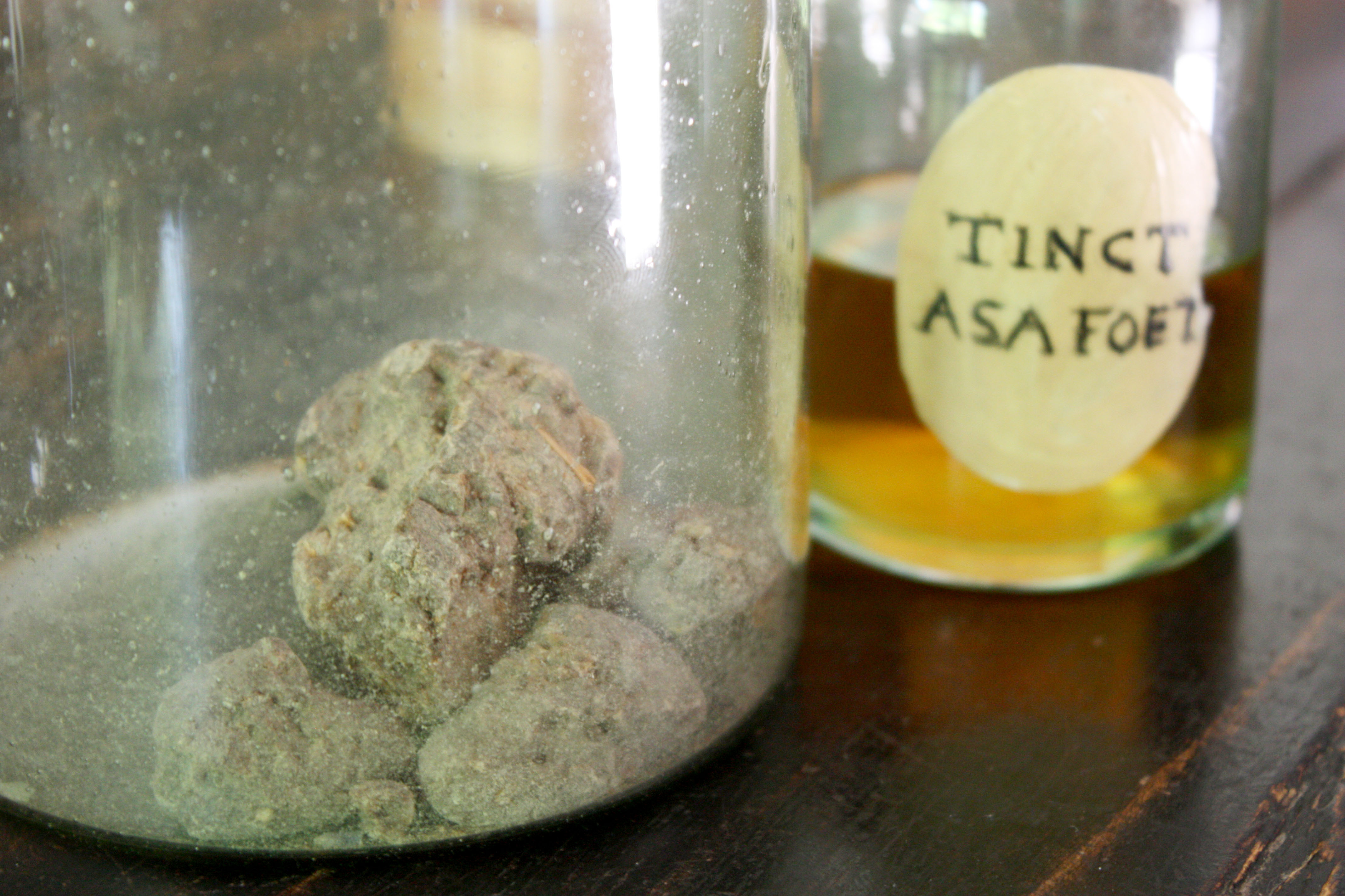 Asafoetida